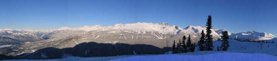 A panoramic view of Blackcomb mountain, taken from an Observation station on Whistler Mountain, Winter 2003 Photo: Peter Bass